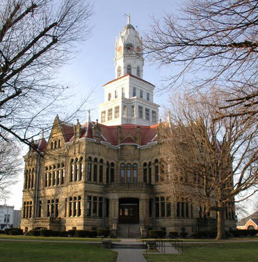 The Edgar County Courthouse, Paris, Illinois, USA.